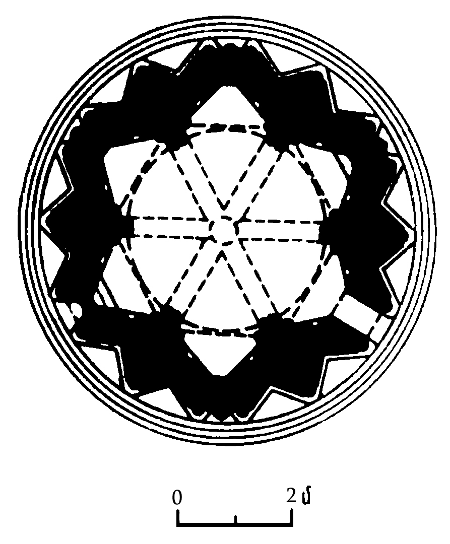 Plan of Hovvi church in Ani